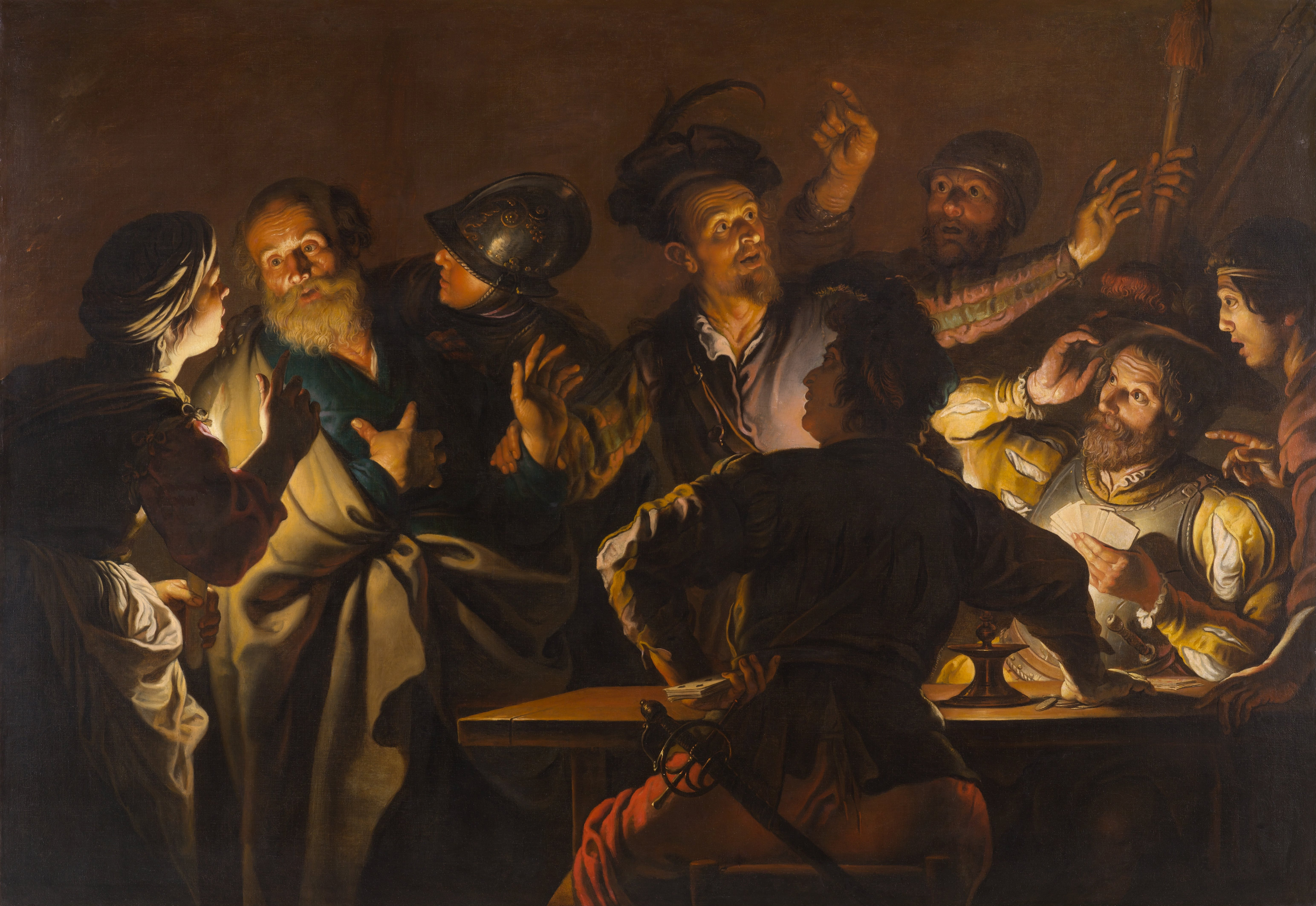 The Denial of St. Peter. circa 1620-1625. Gerard Seghers. Oil on canvas.62 x 89 1/2 in. (157.5 x 227.3cm). North Carolina Museum of Art via Google Cultural Institute